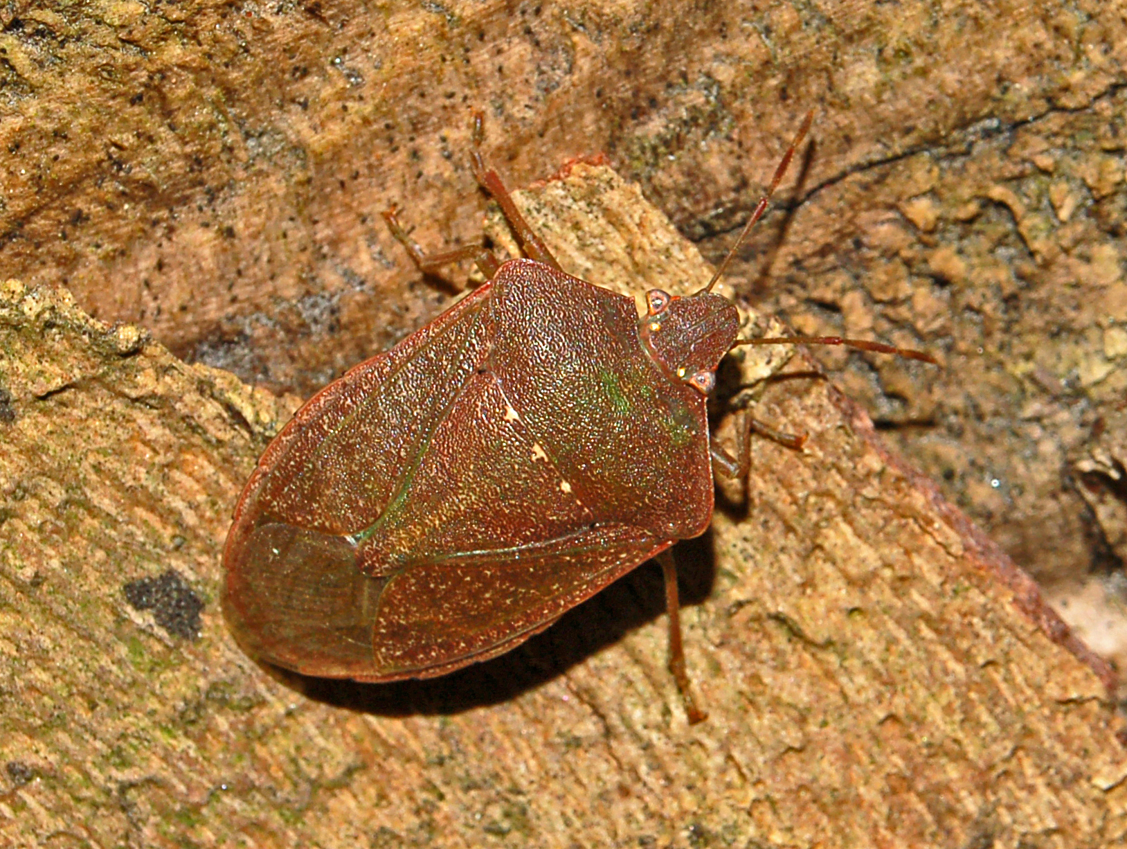 Nezara viridula. Adult, winter color pattern. Acquasanta, Genova, Italy